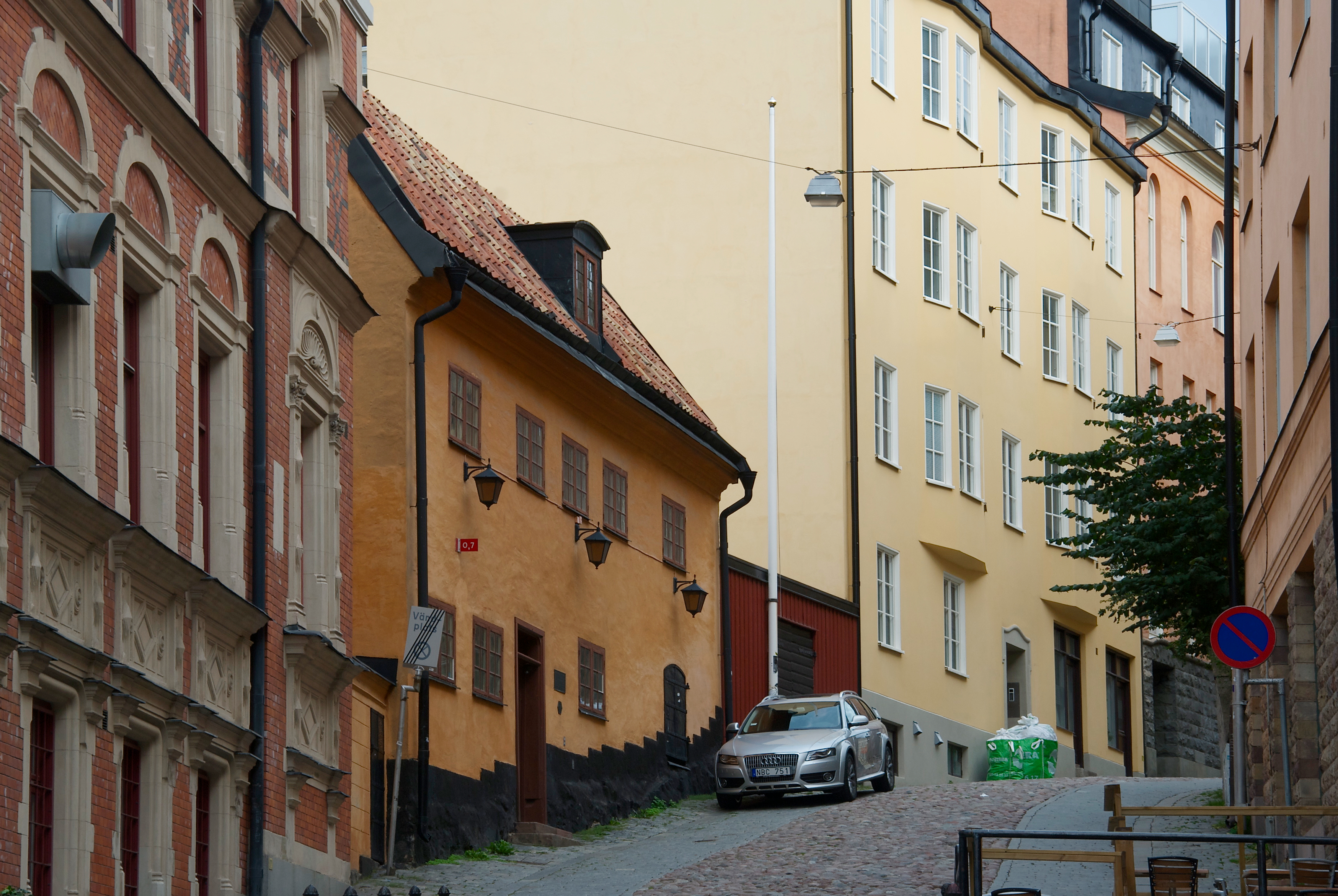 Bellmanhuset (The Bellman house) in Stockholm, September 2011. Home (1770-74) of Carl Michael Bellman.